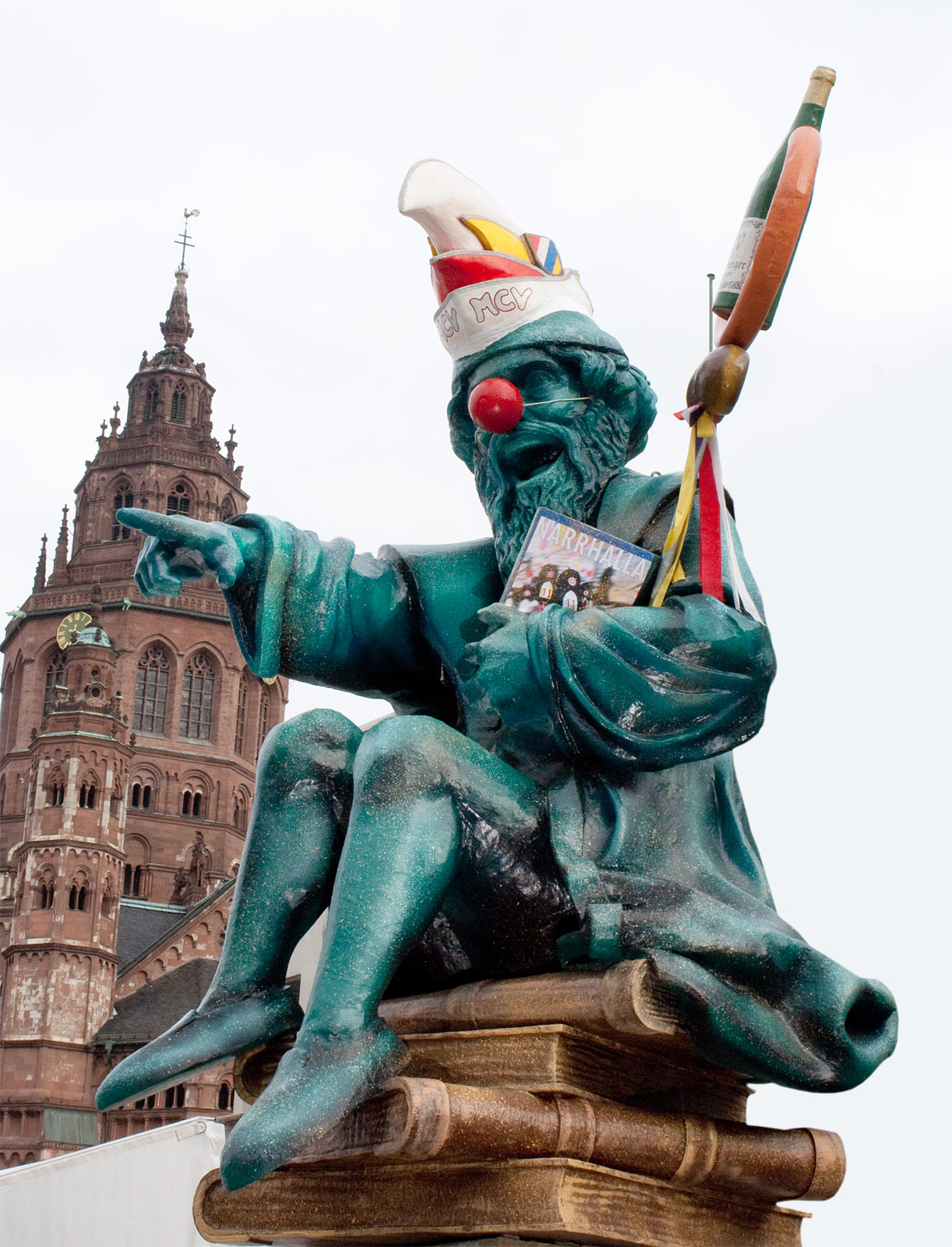 Substitute for the "Gutenberg-Denkmal" during the carnival campaign 2009